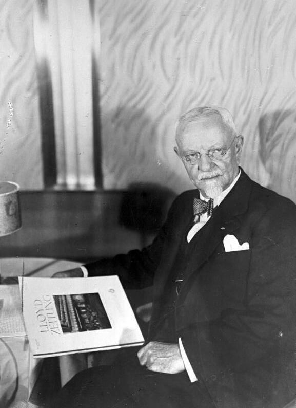 USA, Senator Richard Barthold